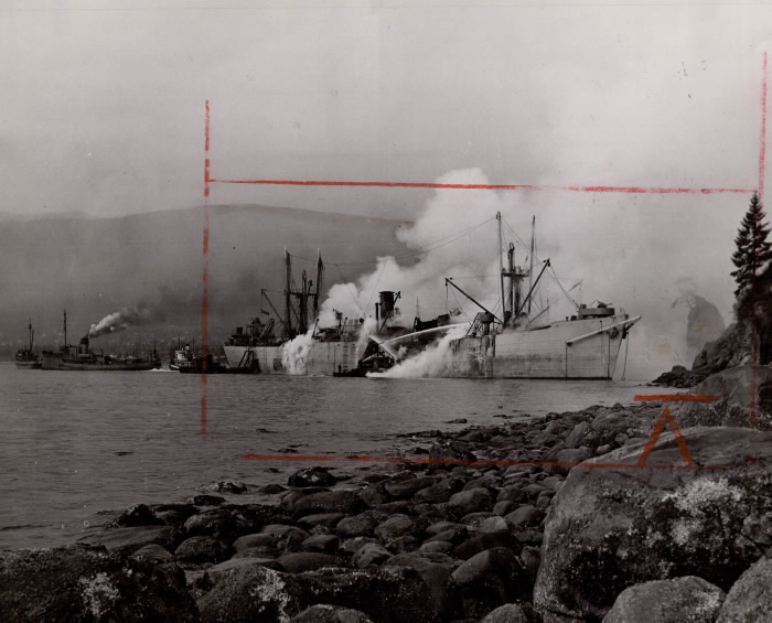 Firefighters beached the Greenhill Park on Vancouver's Siwash Point, in 1945. Original caption: “Beached on historic Siwash Rock where she was towed after six explosions ripped her hull and shook downtown Vancouver yesterday noon; the freighter Greenhill Park stil burns furiously. A fireboat pours a steady stream of water into the hull.” This image is available from the Toronto Public LibraryThis tag does not indicate the copyright status of the attached work. A normal copyright tag is still required. See Commons:Licensing for more information. English | français | +/−